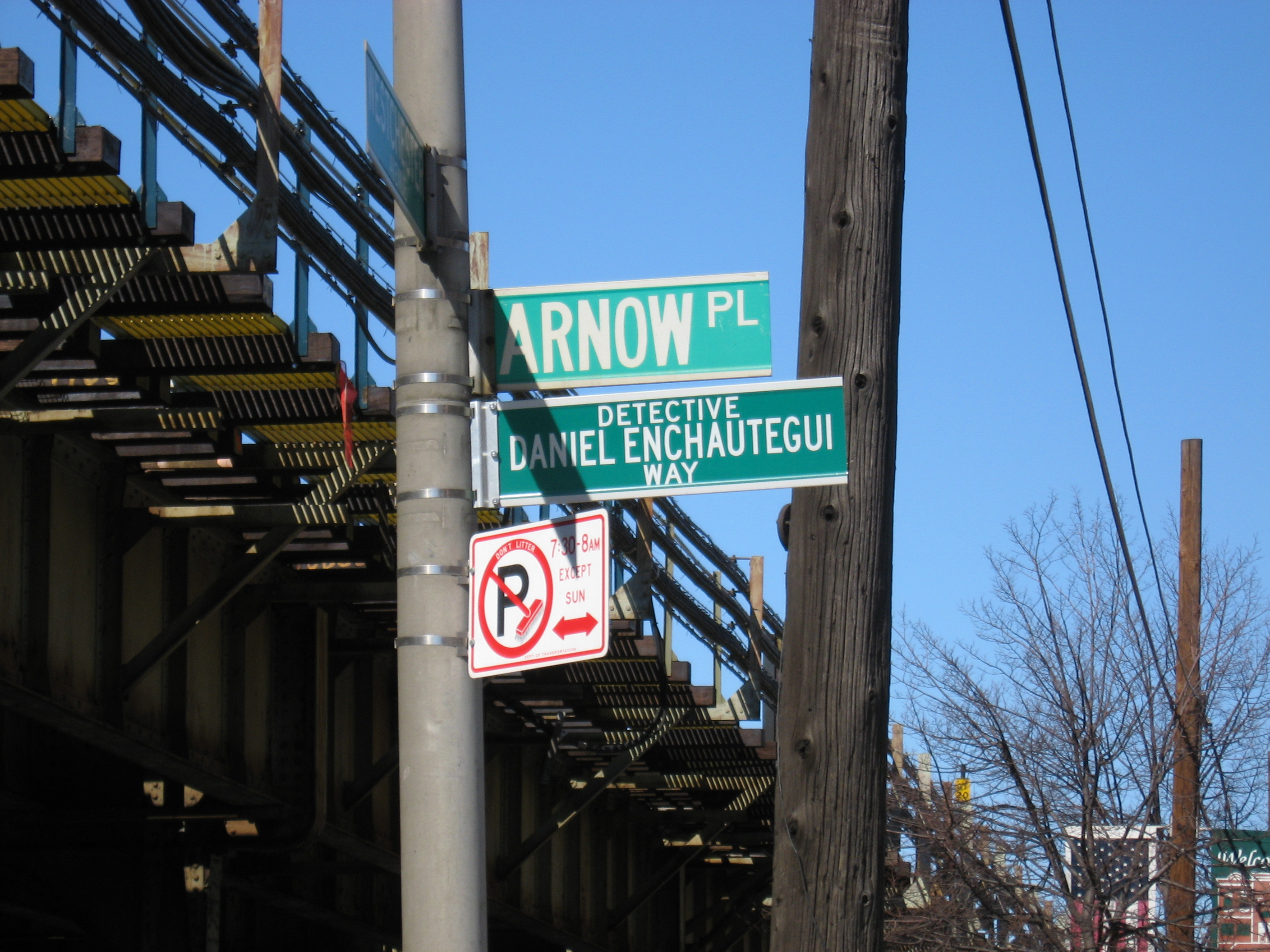 Street name sign for the Detective Daniel Enchautegui Way (formerly Arnow Place) in the Pelham Bay, section of The Bronx. Tracks for the IRT Pelham Line are over the intersection with Westchester Avenue. This street was renamed in honor of a fallen police officer who was killed in December 2005.